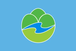 Flag of Kawanehon Shizuoka